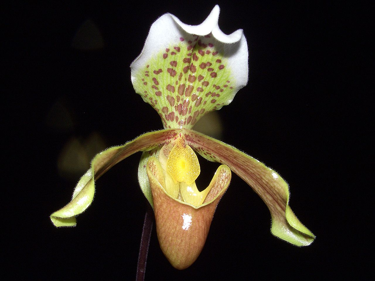 Paphiopedilum insigne